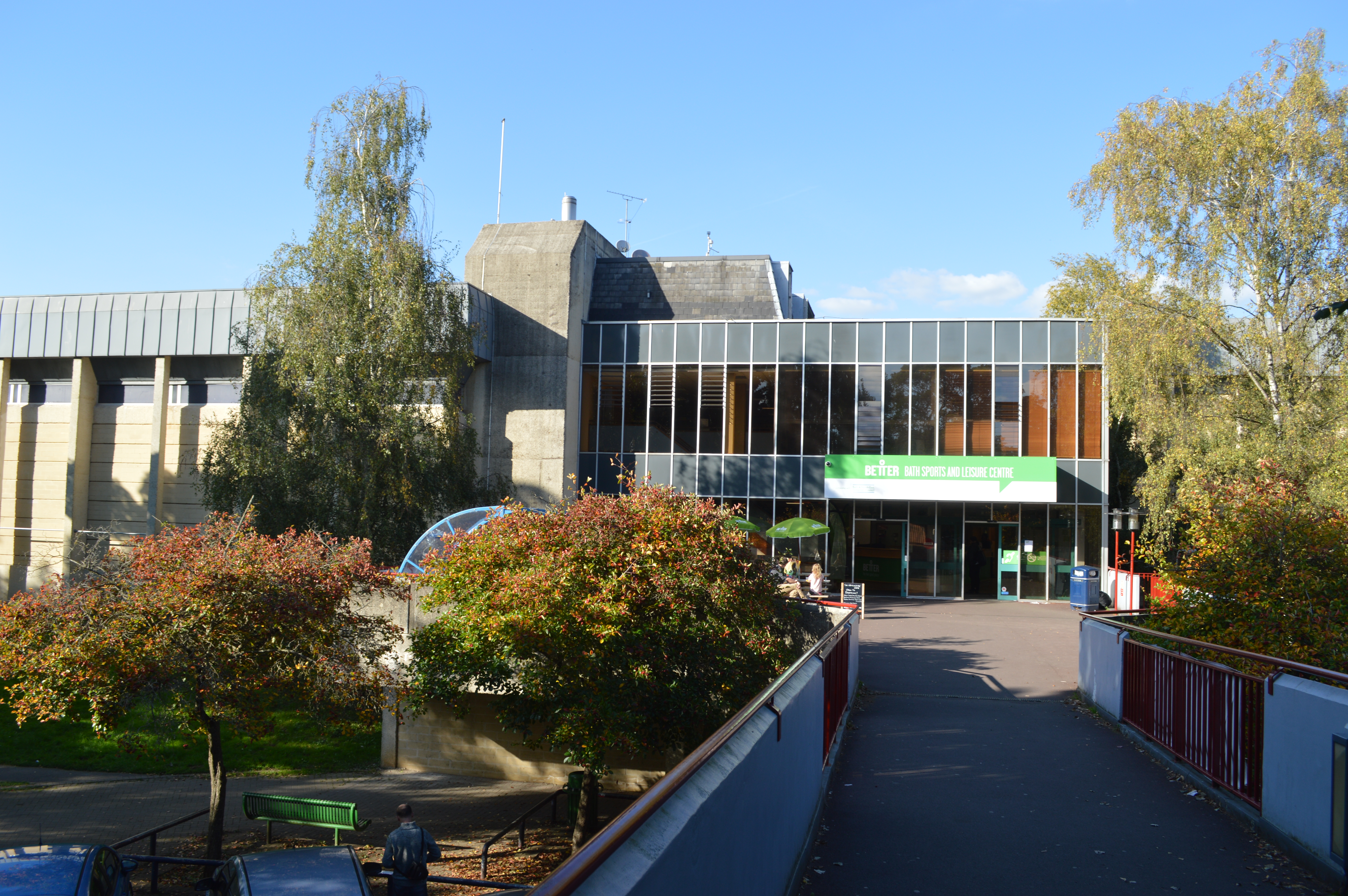 Bath Sports and Leisure Centre, main entrance.